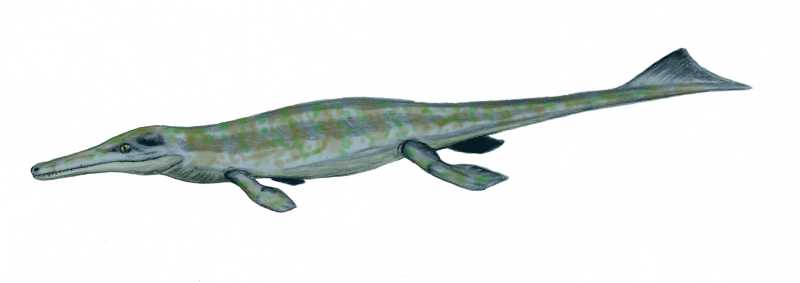 Metriorhynchus superciliosus, pencil drawing. Metriorhynchus was a marine crocodyliform famillia that lived in the oceans during the Middle to Late Jurassic Period.